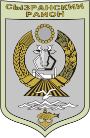 Syzransky rayon (Samara oblast), coat of arms